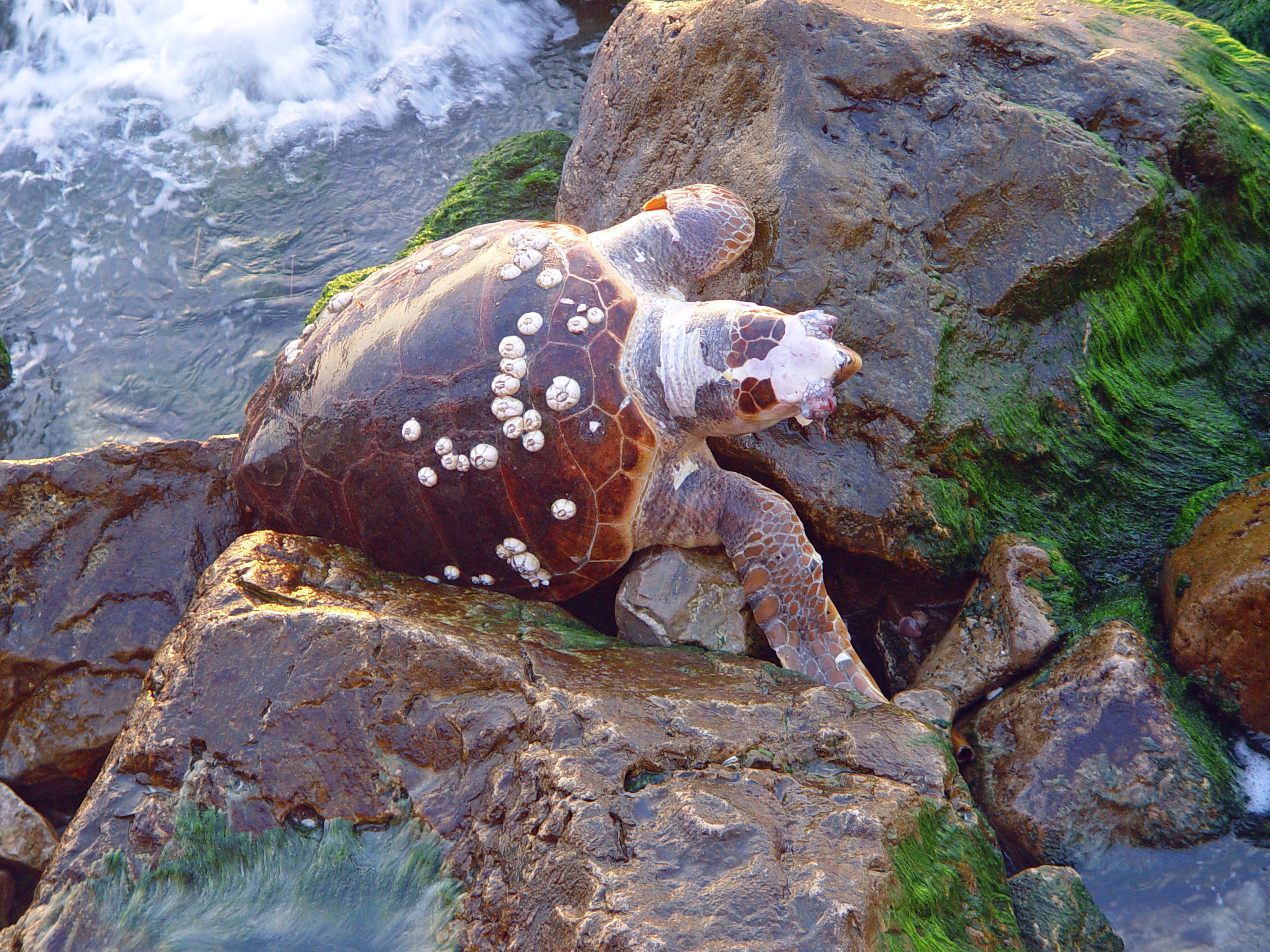 Loggerhead sea turtle found on Tel Aviv Harbour esplanade (18 April 2013). Notice head lesion and white barnacles on shell.